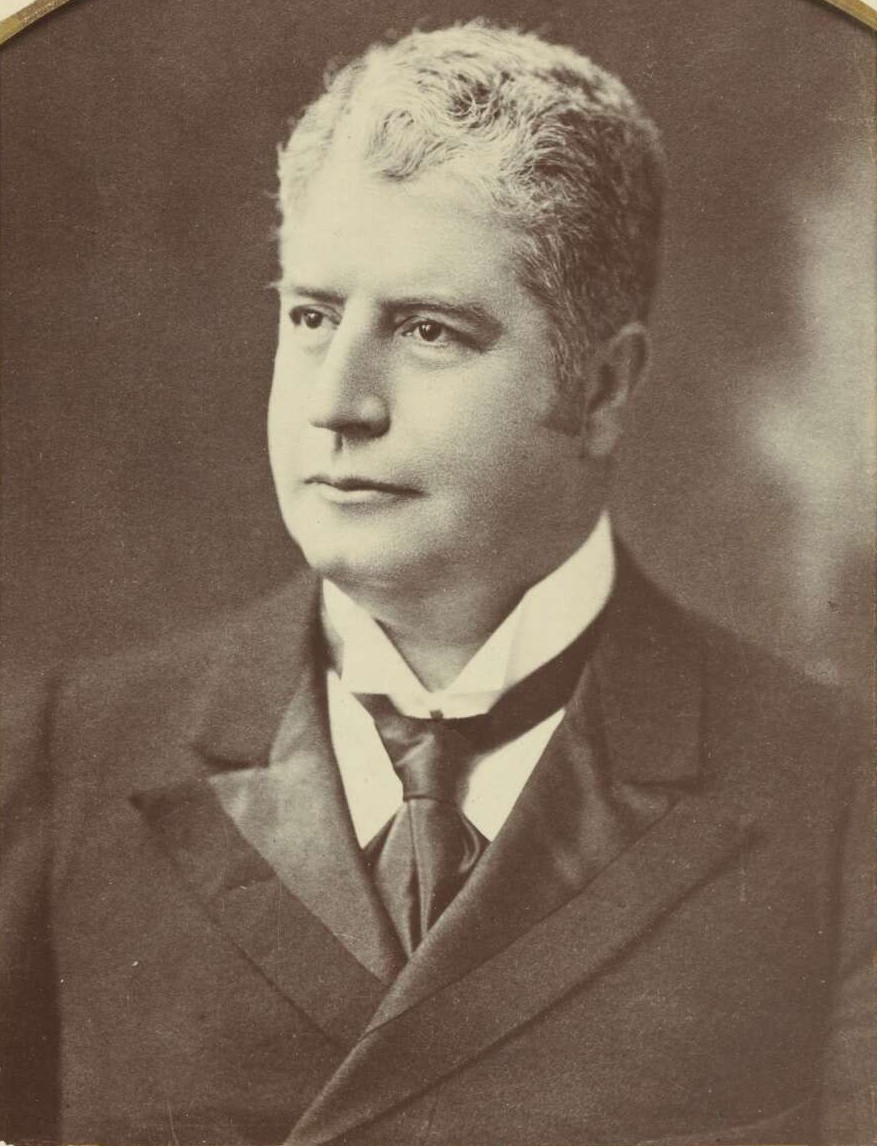 Edmund Barton (leader of Convention) [picture]. 1898. 1 of 1 album (54 photographs) : b&w ; album 28 x 38 x 9.5 cm., portraits approx. 14 x 9.5 cm.